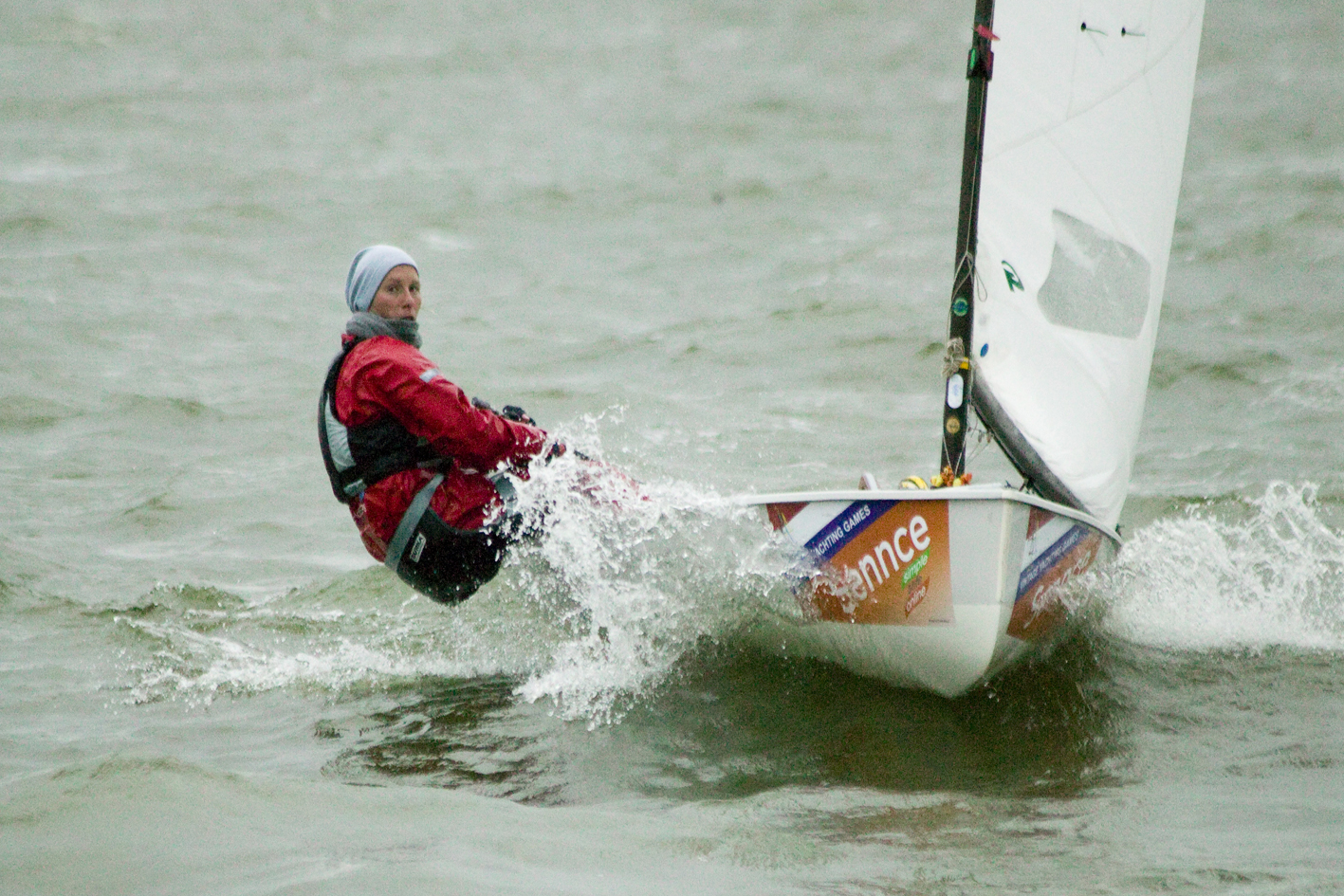 Winner 2008 Vintage Yachting Games Europe Female